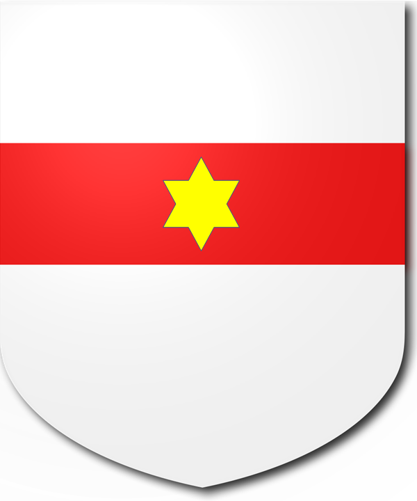 Massolo family shield